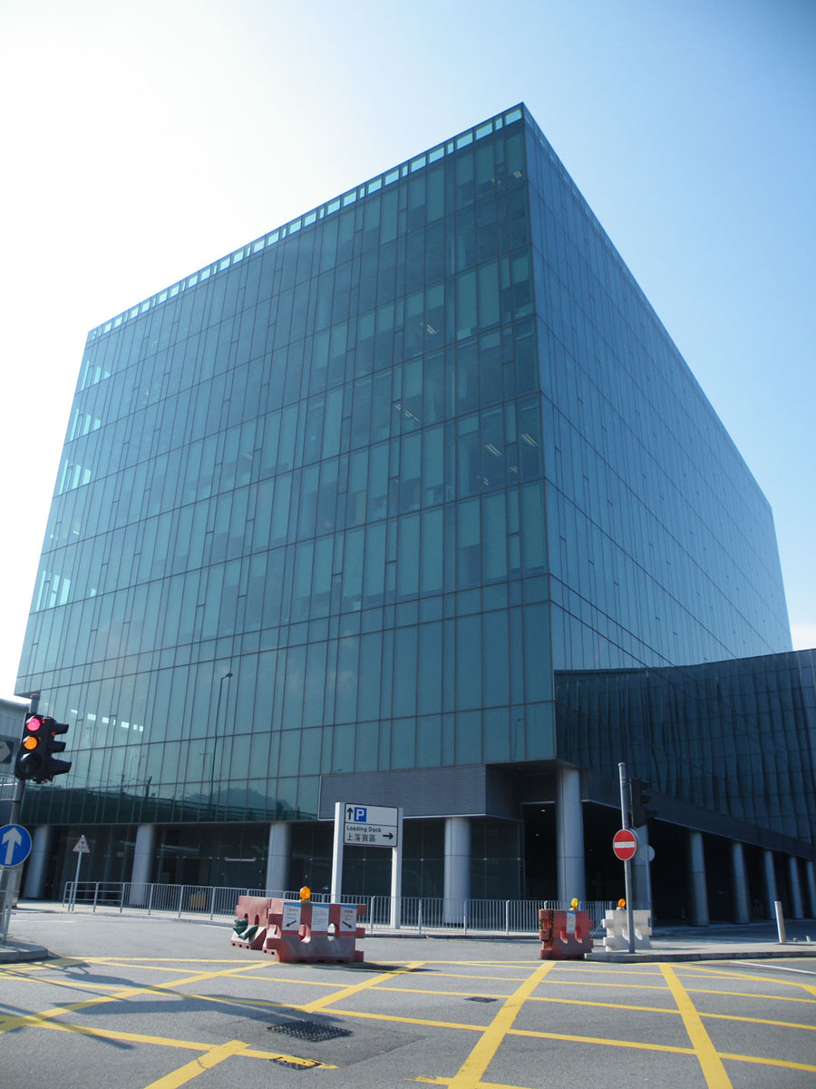 Airport World Trade Center, Hong Kong International Airport